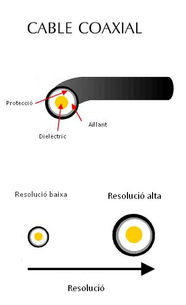 Cable coaxial